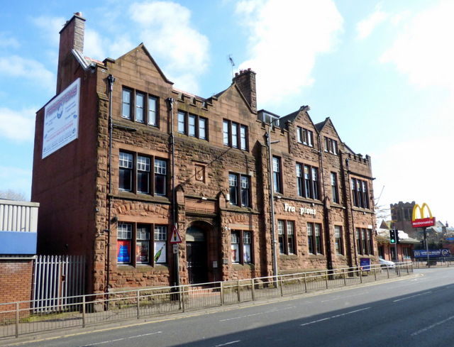 Half front of Glasgow Soldiers' Home in modern day.